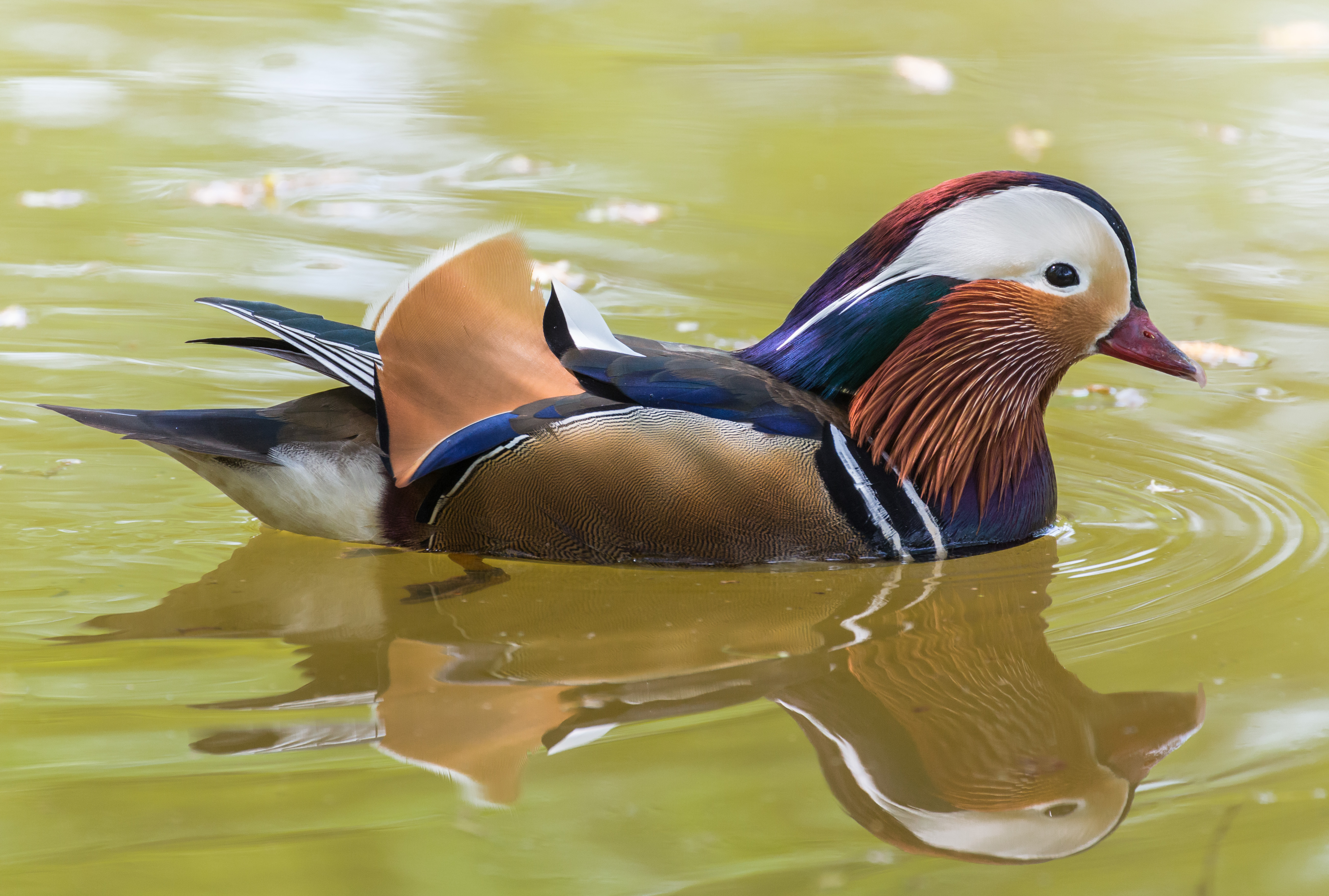 Aix galericulata drake / Male Mandarin Duck at Isabella Plantation in Richmond Park, London, United Kingdom.